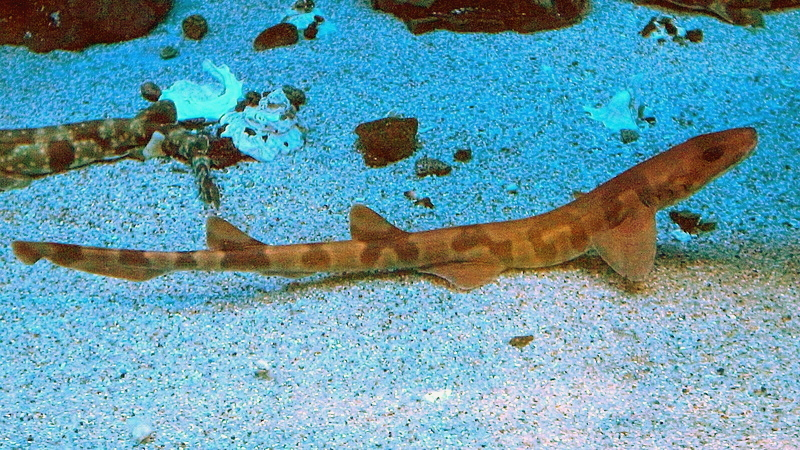 Saddle carpetshark (Cirrhoscyllium japonicum) at Port of Nagoya Public Aquarium, Japan